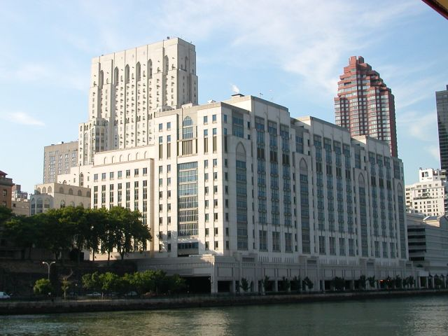 Me. I took on a trip to NYC.